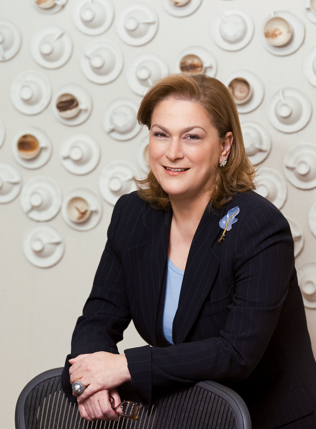 Guler Sabanci